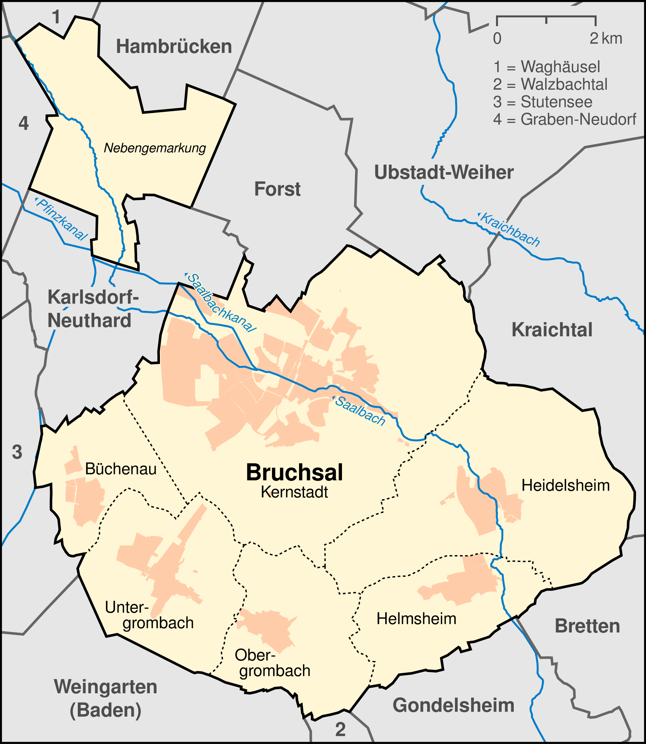 map of Bruchsal, city close to Karlsruhe, Germany, with subdivision names and boundaries